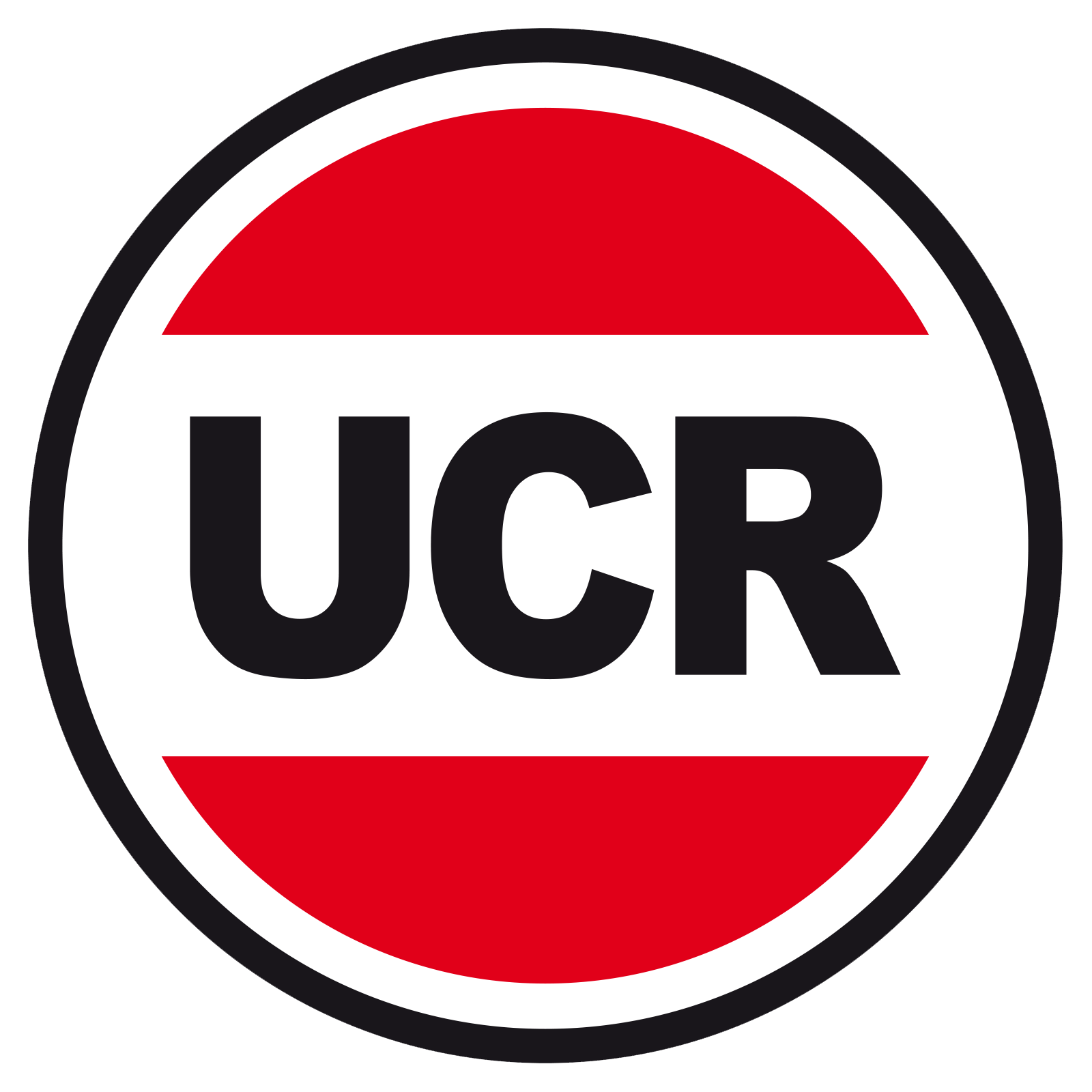 Modern text logo of the Argentine political party Unión Cívica Radical.